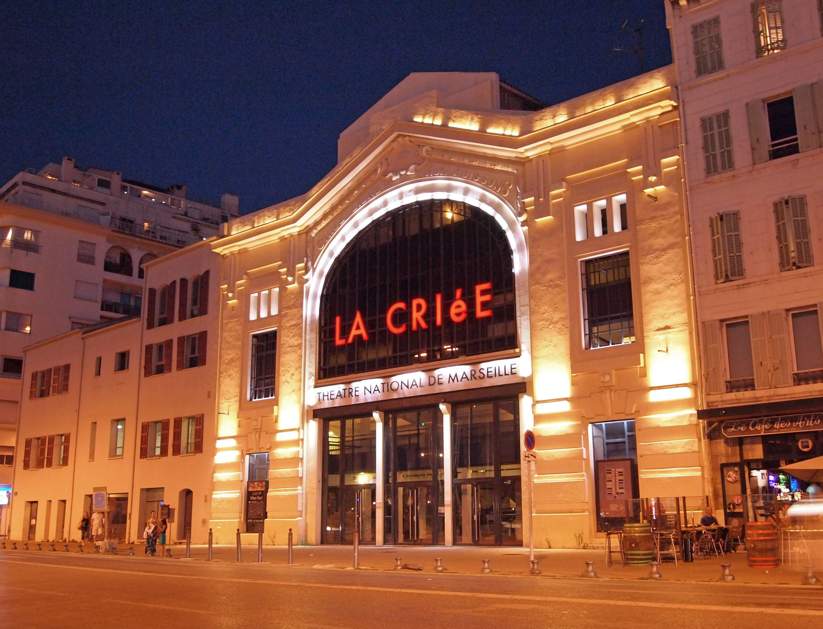 Theatre La Criée in Marseille at night.